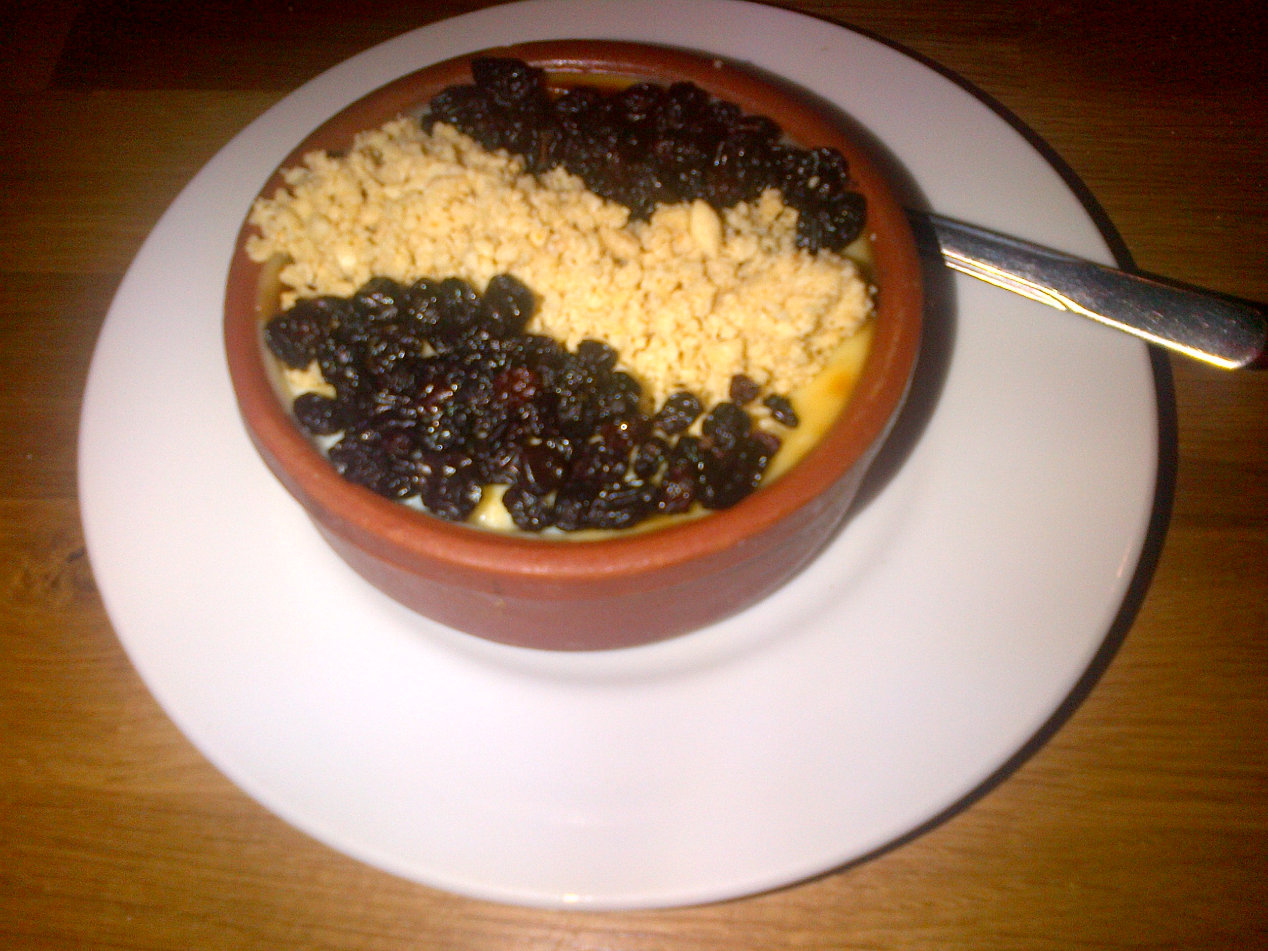 Fırın sütlaç from Turkey.